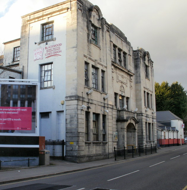 Blackwood Miners' Institute Located on High Street, just north of the Pentwyn Road junction. Originally opened in 1925 as a single storey snooker hall, owned by the Coal Industry and the Social Welfare Organisation, paid for out of Oakdale miners’ contributions of 3d a week. In 1936 two floors were added to the building to include a stage, auditorium, dance floor, reading room, library, ladies' room and rehearsal rooms for local societies. Events held in the building included tea dances, snooker/billiards, reading groups, rehearsals and union meetings for local miners. The building fell into disrepair in the 1970s and 1980s following pit closures. In 1989 the trustees sold it to Islwyn Borough Council on the understanding that it would be made available for community use. The building reopened in February 1992 as a community arts and entertainment venue, with funding from Islwyn Borough Council and the Welsh Office. The building is currently (2010) one of the Arts Council of Wales core regional performing arts venues presenting over 40 shows a season ranging from well-known names to productions staged by local community groups.